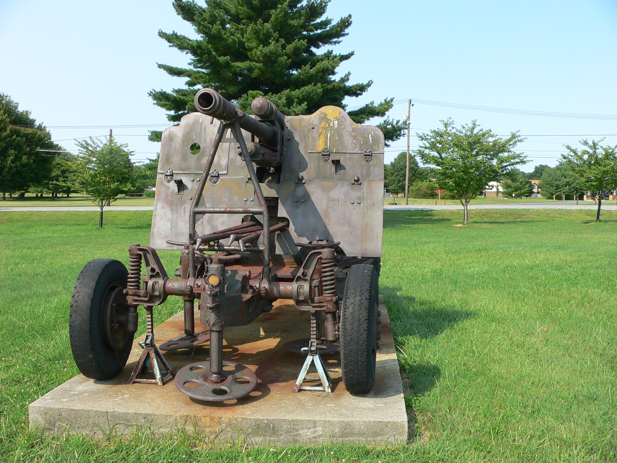 Picture taken by myself, Mark Pellegrini, at the United States Army Ordnance Museum (Aberdeen Proving Ground, MD) on August 14, 2007.